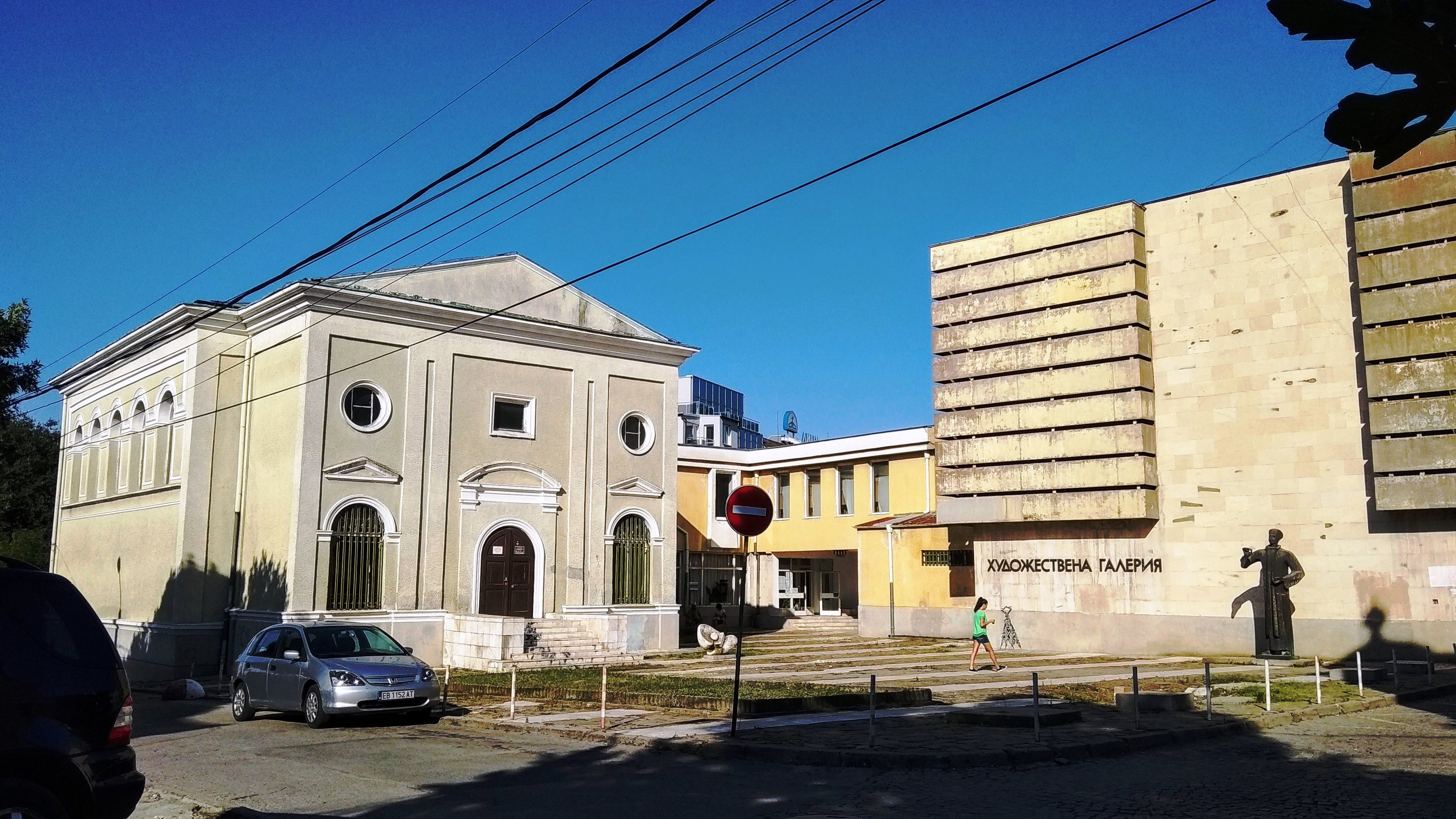 Yambol George Papazov art gallery (former synagogue)